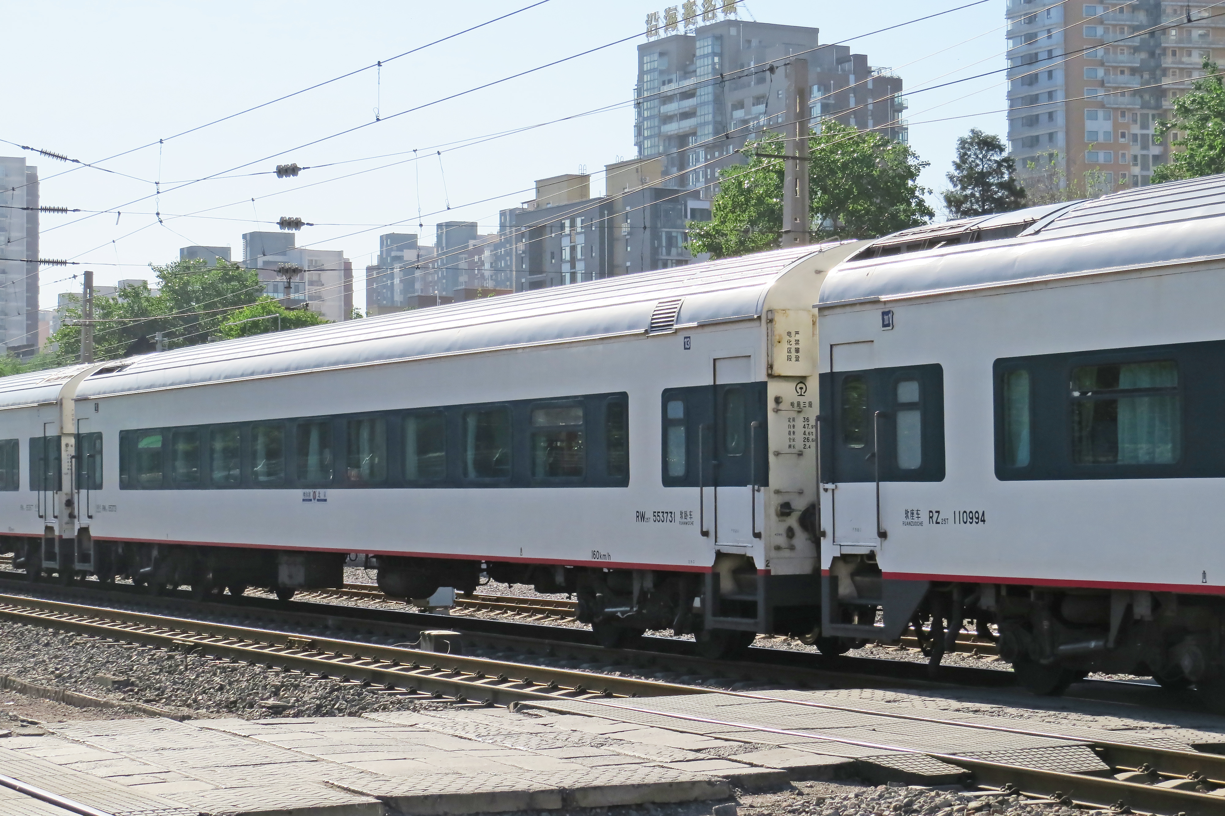 Z2 from Harbin. The train number will become Z18 since 10 May 2016.